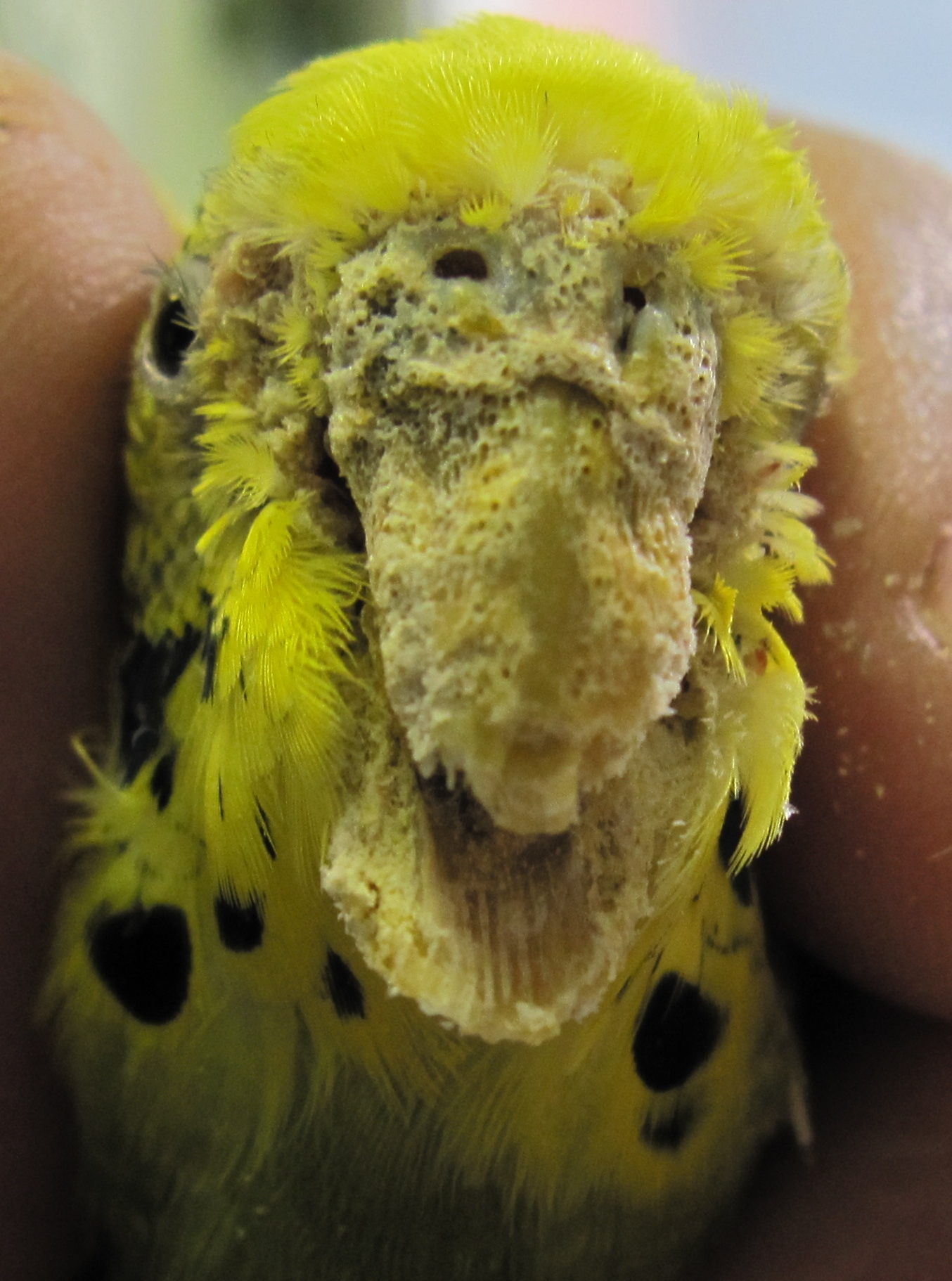 Scaly face in a budgerigar